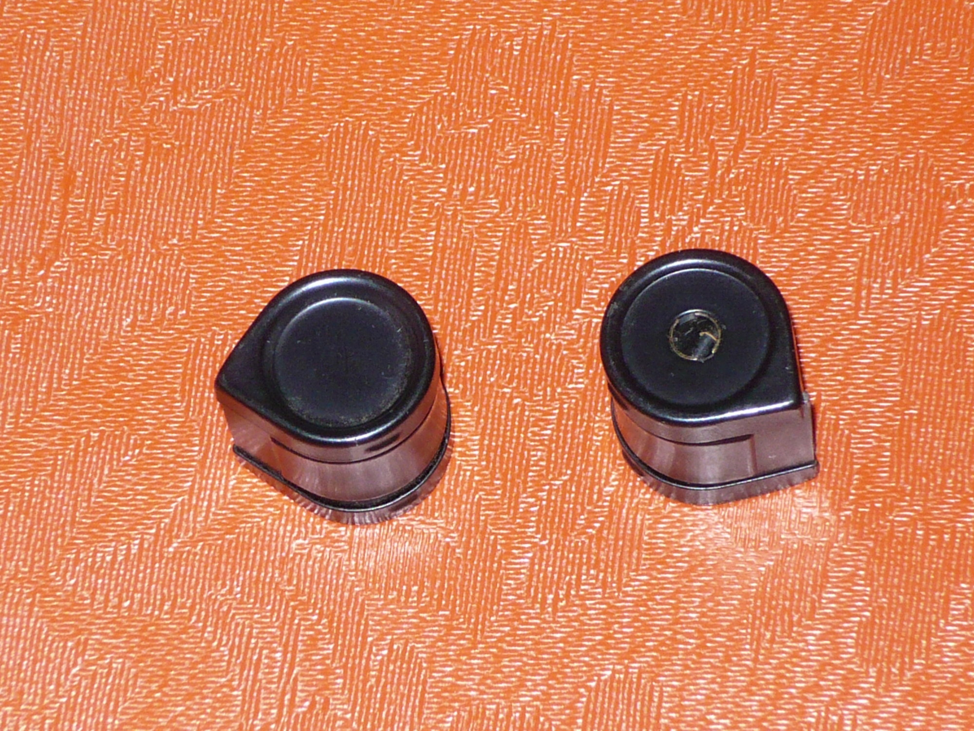 Meopta Mikroma cassettes